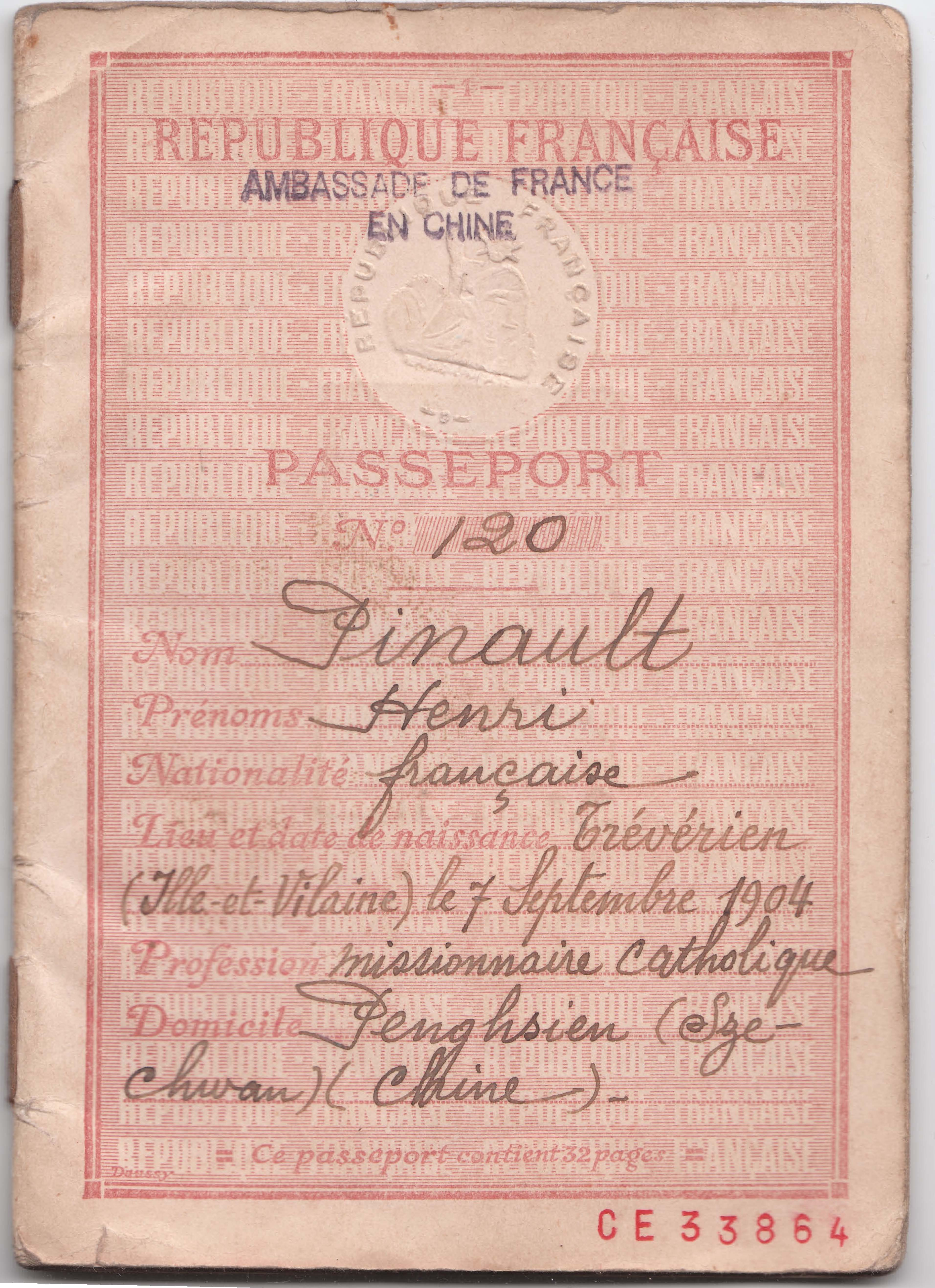 This is a picture of the cover of Henri Pinault's passport issued in 1945 by French officials in Chongqing, China. Pinault was a Catholic missionary and the last Roman Catholic Bishop of Chengdu. I purhcased this passport in 2006 in Chengdu, China and scanned the cover.